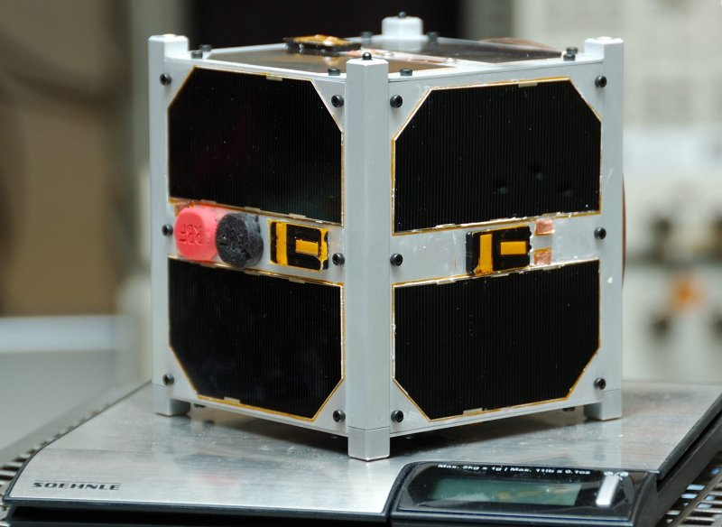 First assembly of a ESTCube-1 nanosatellite.